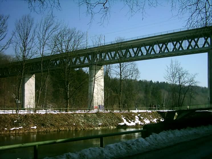 Großhesseloher Brücke in Munich seen from western banks of Isar-Werkkanal in southern direction.